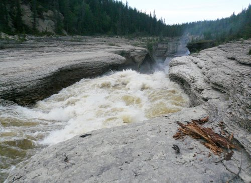 Huge rapids - Trout River , close to Sambaa Deh Falls, Mackenzie Highway, NWT